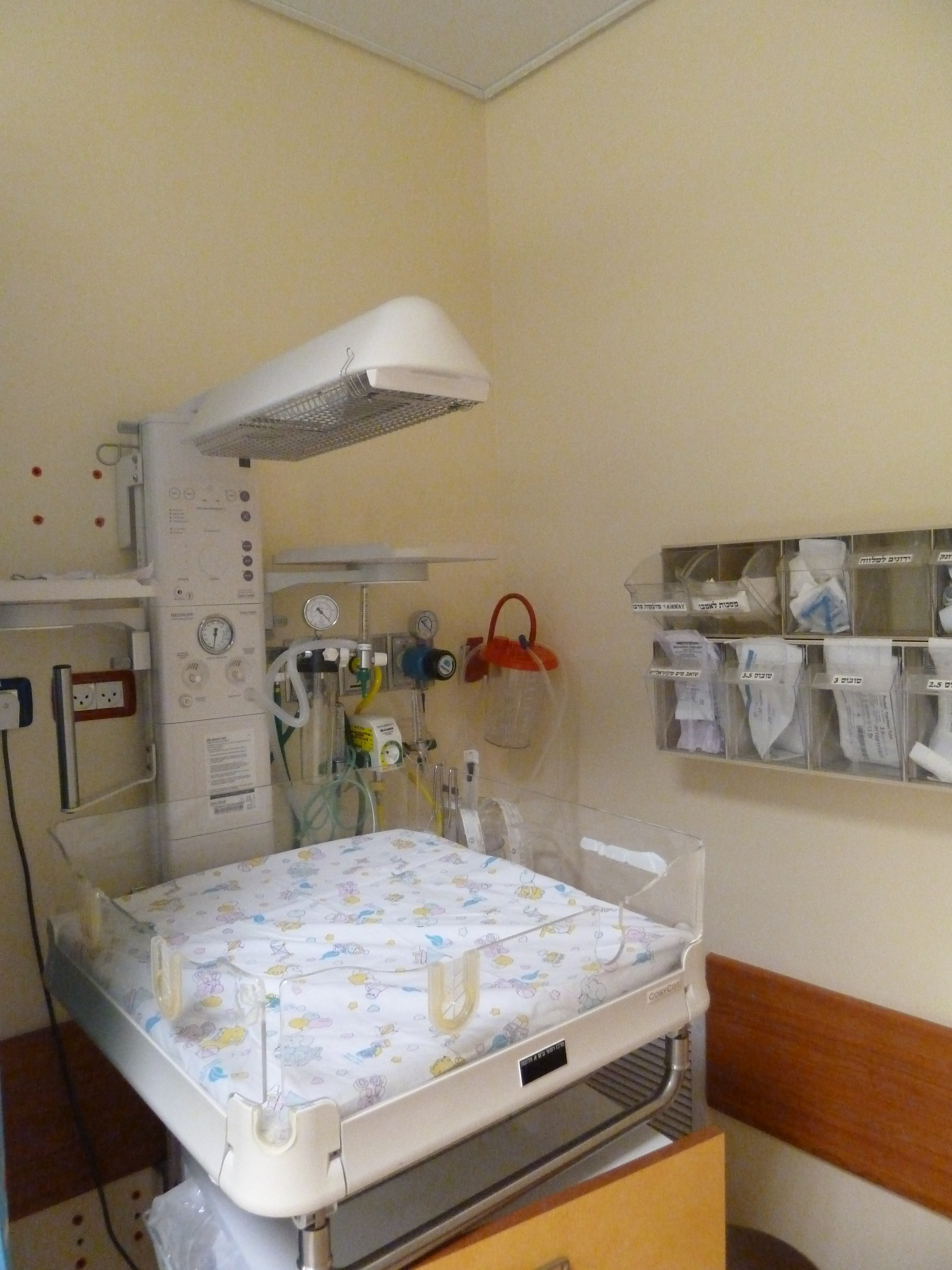 Edith Wolfson Medical Center, Holon, Israel